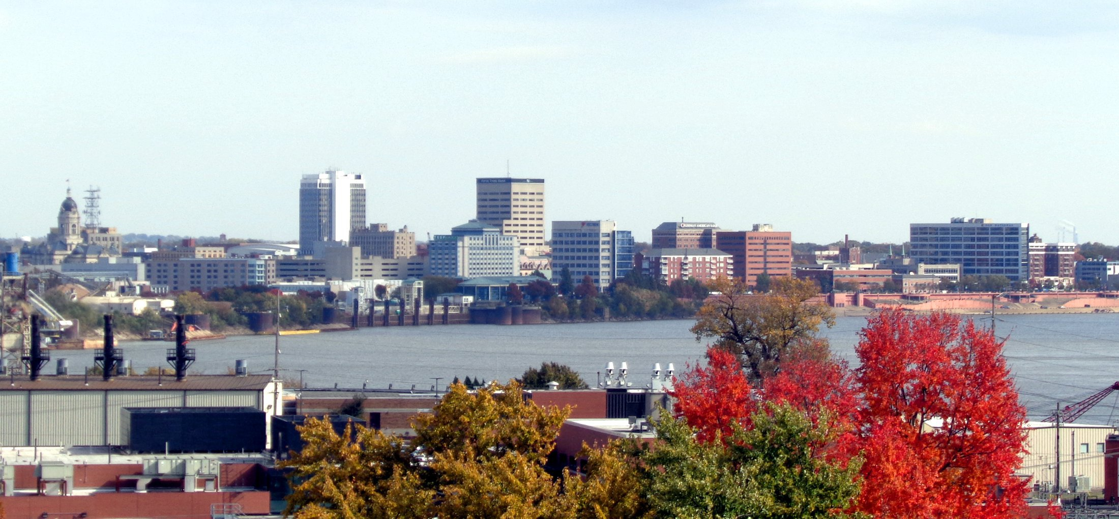 Panorama of downtown Evansville from Dreier Blvd